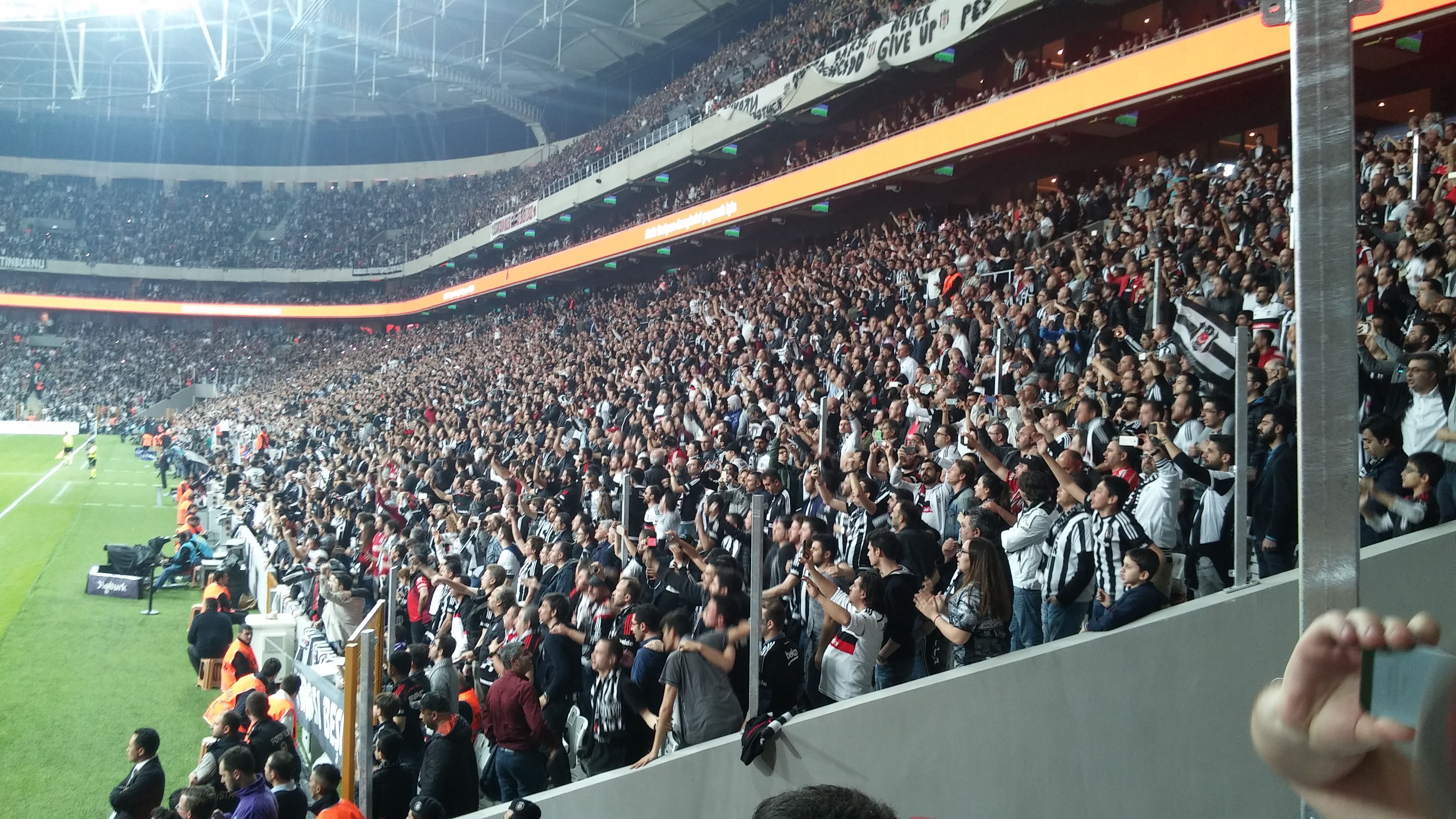 Beşiktaş J.K. vs Bursaspor 11 April 2016